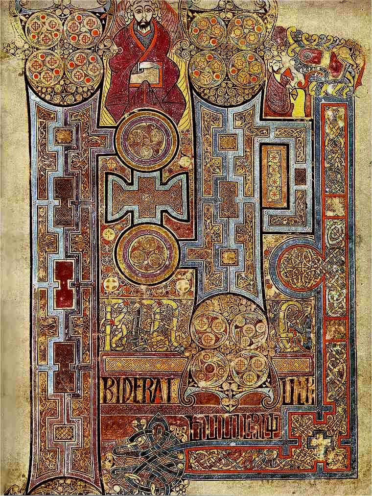 Book of Kells, Folio 292r, Incipit to John. In principio erat verbum.